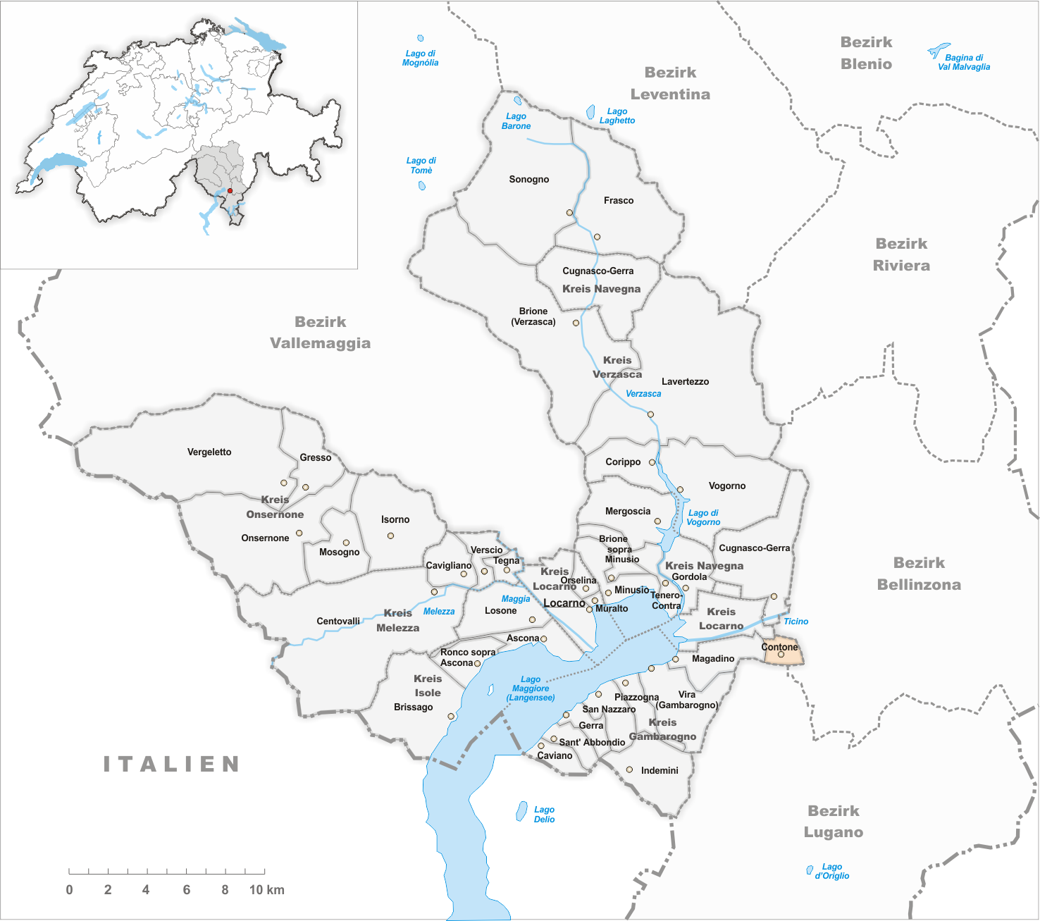 Municipality Contone Artist: Tschubby